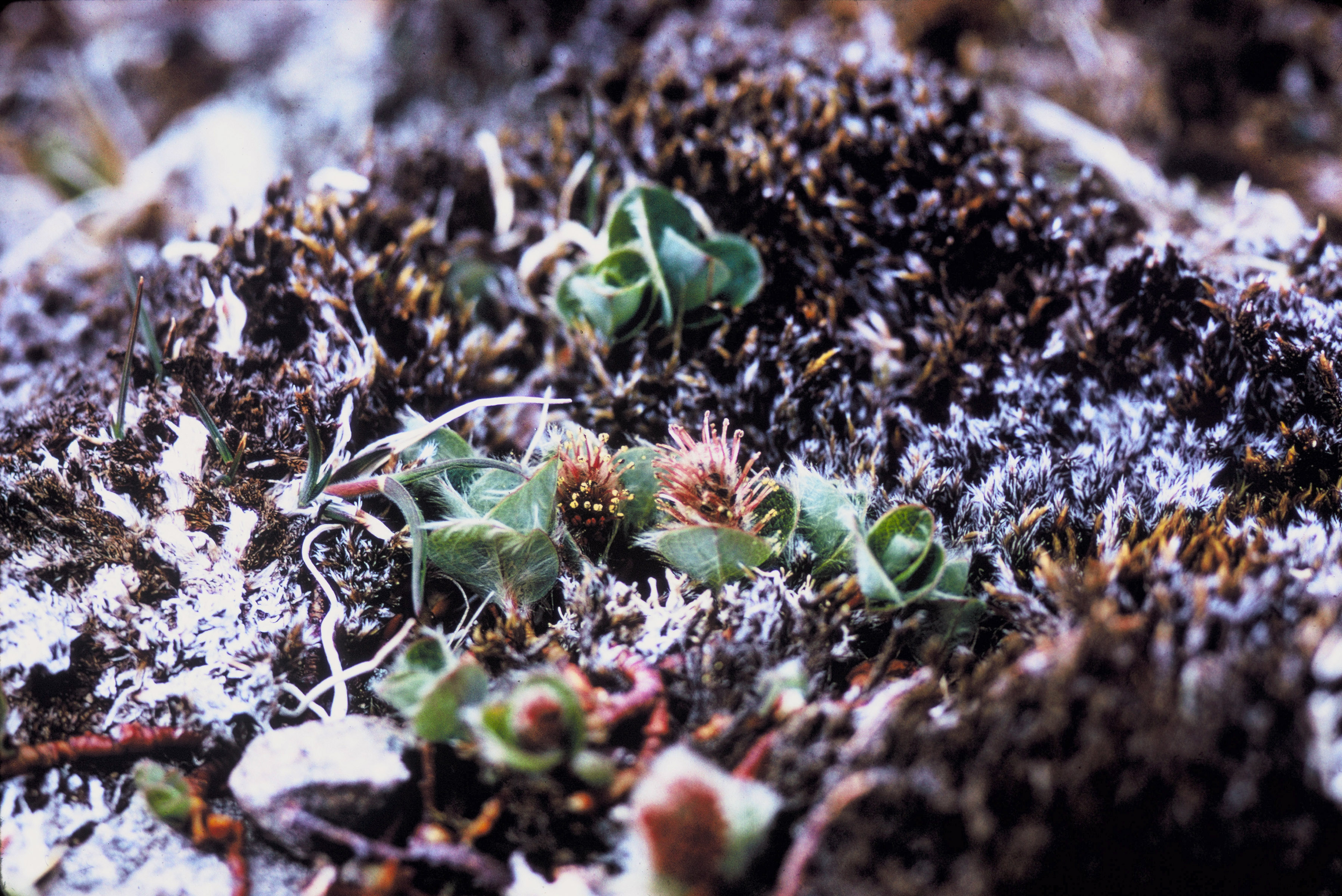 Salix arctica, Amchitka Island, Alaska